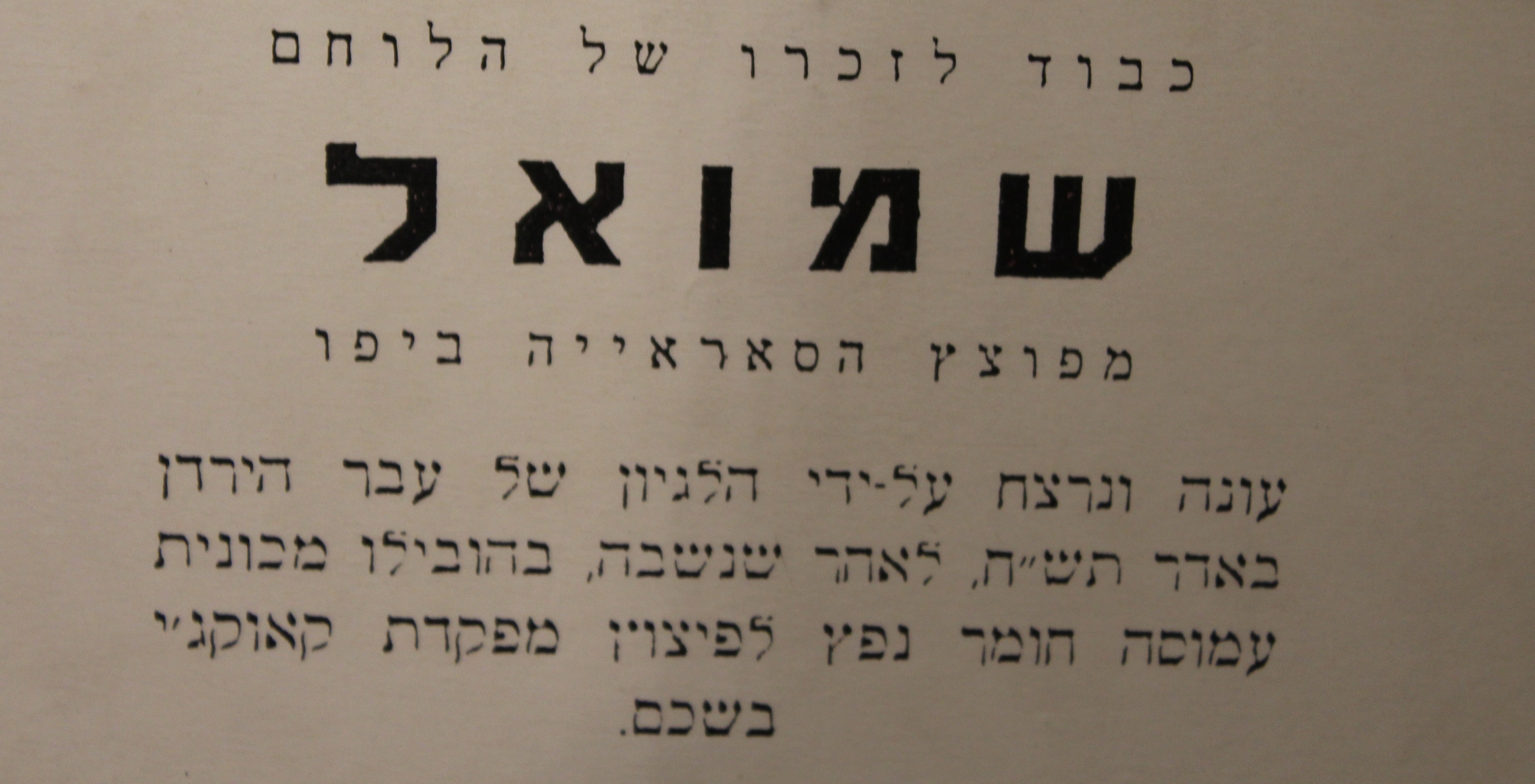 The Lehi Museum, also known as Beit Yair, is placed in the house where the Lehi commander, Avraham Stern (Yair) was assassinated. Including the room where Abraham Stern, Lehi commander, was murdered by a British policeman on 12/2/1942. The site's ID in Wiki Loves Monuments photographic competition is 3-5000-037